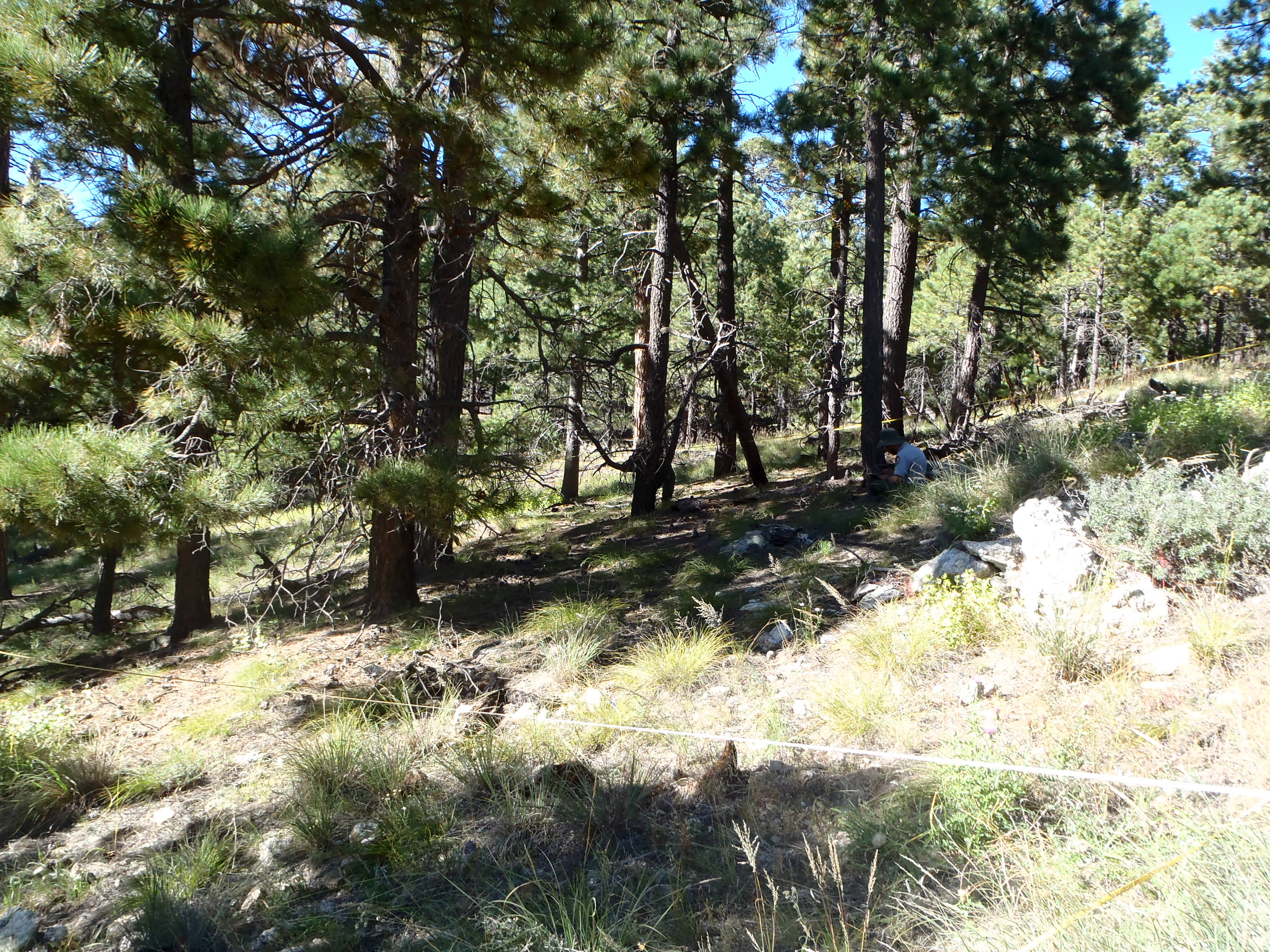 Temperate forest, Saguaro National Park, Rincon Mtn District